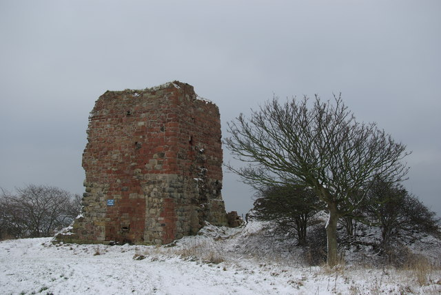 Ardrossan Castle Originally a property of the Barclays, it later came into the ownership of the Ardrossans of that Ilk and finally the Montgomeries. Once abandoned, a quantity of stonework was removed by Cromwell to build his citadel at Ayr. William Wallace is said to have taken the castle, murdered the garrison and thrown them into the dungeon which later became known as Wallace's larder. Wallace's ghost is said to appear on stormy nights. The visible remains of the castle date mainly from the 15th-century.